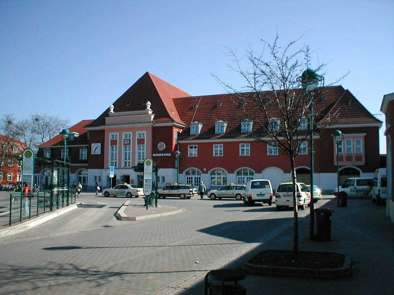 Frankfurt (Oder) train station